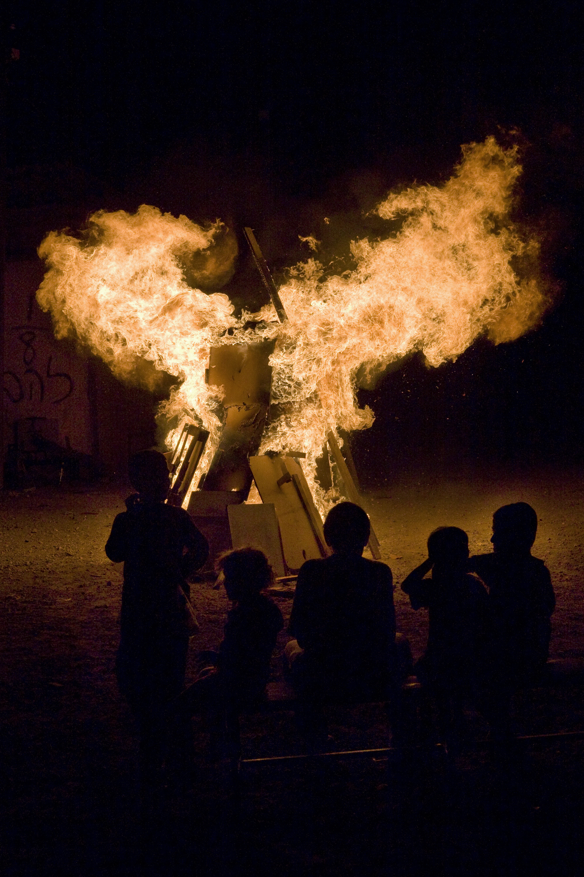 Lag Ba'Omer bonfire in Shapira neighborhood in Tel Aviv, 2011.